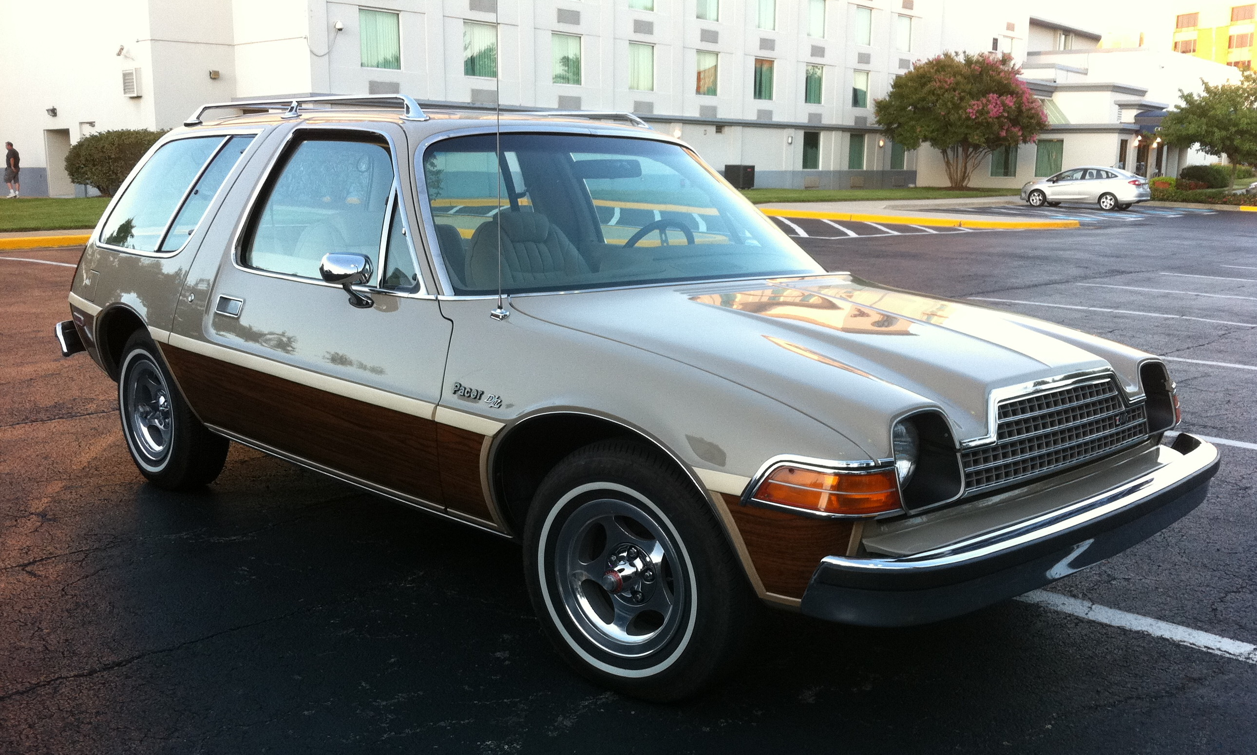 1978 AMC Pacer DL station wagon. A compact car built by American Motors Corporation. This D/L wagon with 304 cid V8 (5.0 L) engine has the optional 5-spoke aluminum wheels, as well as the woodgrain trim on the lower body sides. Photographed at the 32nd Annual AMCRC National Convention and Car Show in Annapolis, MD.